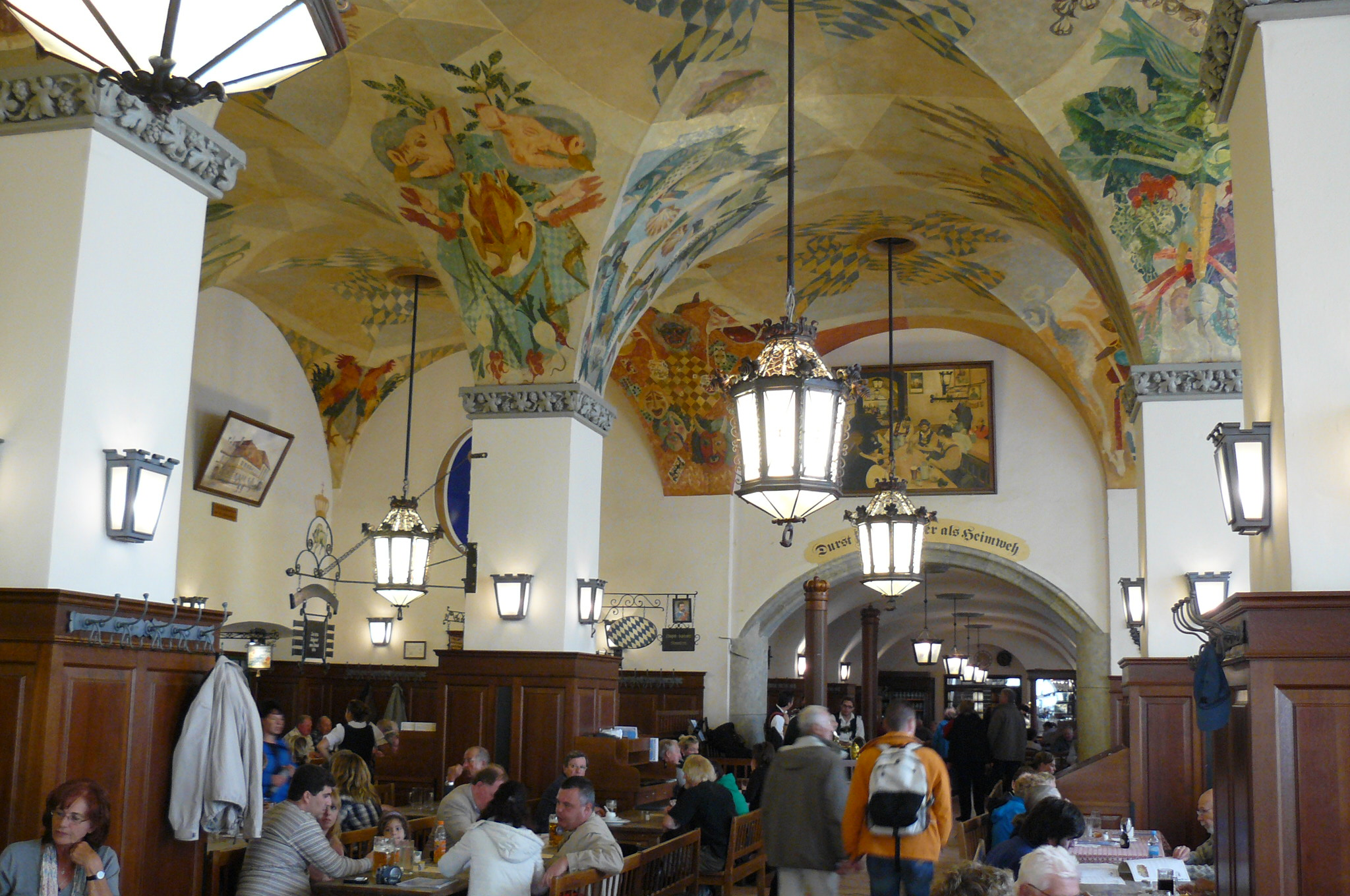 Hofbrauhaus Munich - interior.